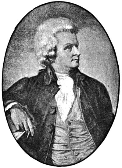 PD image from 14:42, 12 October 2002 Magnus Manske 350x485 (67,262 bytes) (PD image from